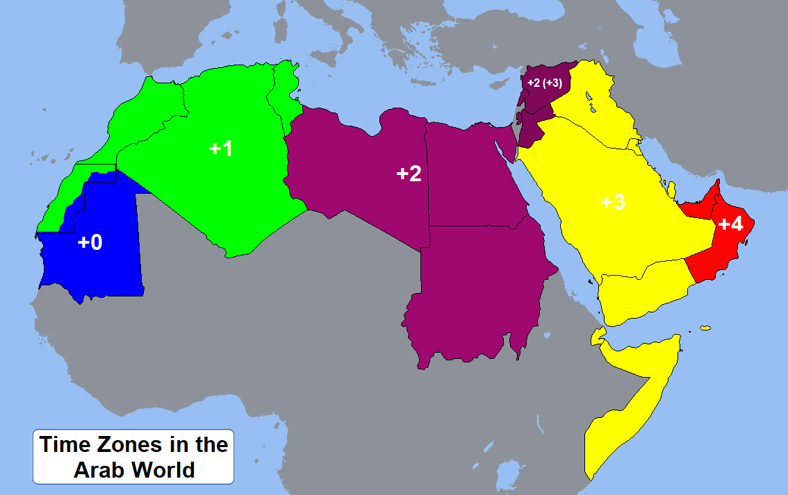 Map drawing of the five time zones in the Arab World.